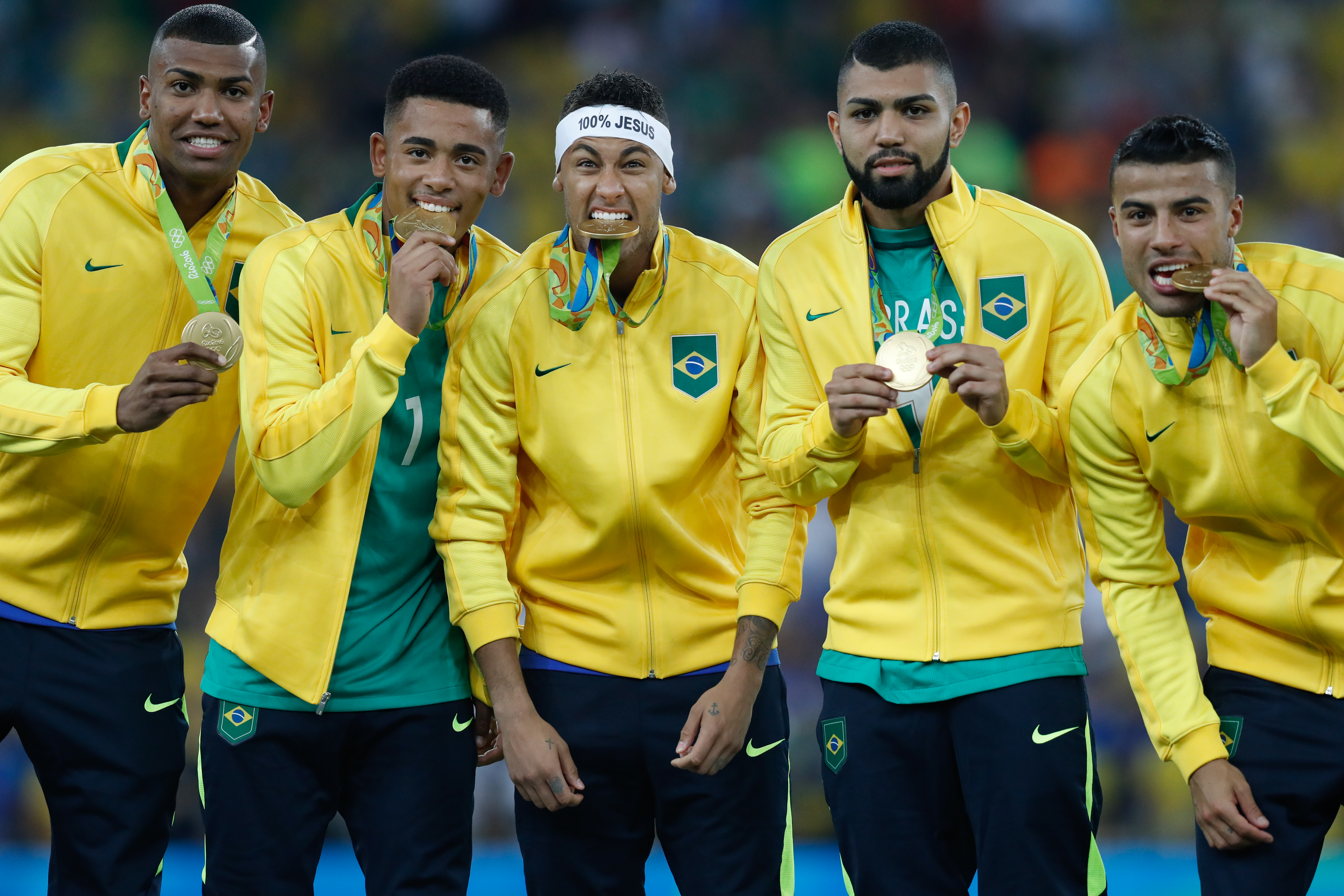 Rio de Janeiro - Brasil vence Alemanha e conquista primeiro ouro olímpico do futebol (Fernando Frazão/Agência Brasil)